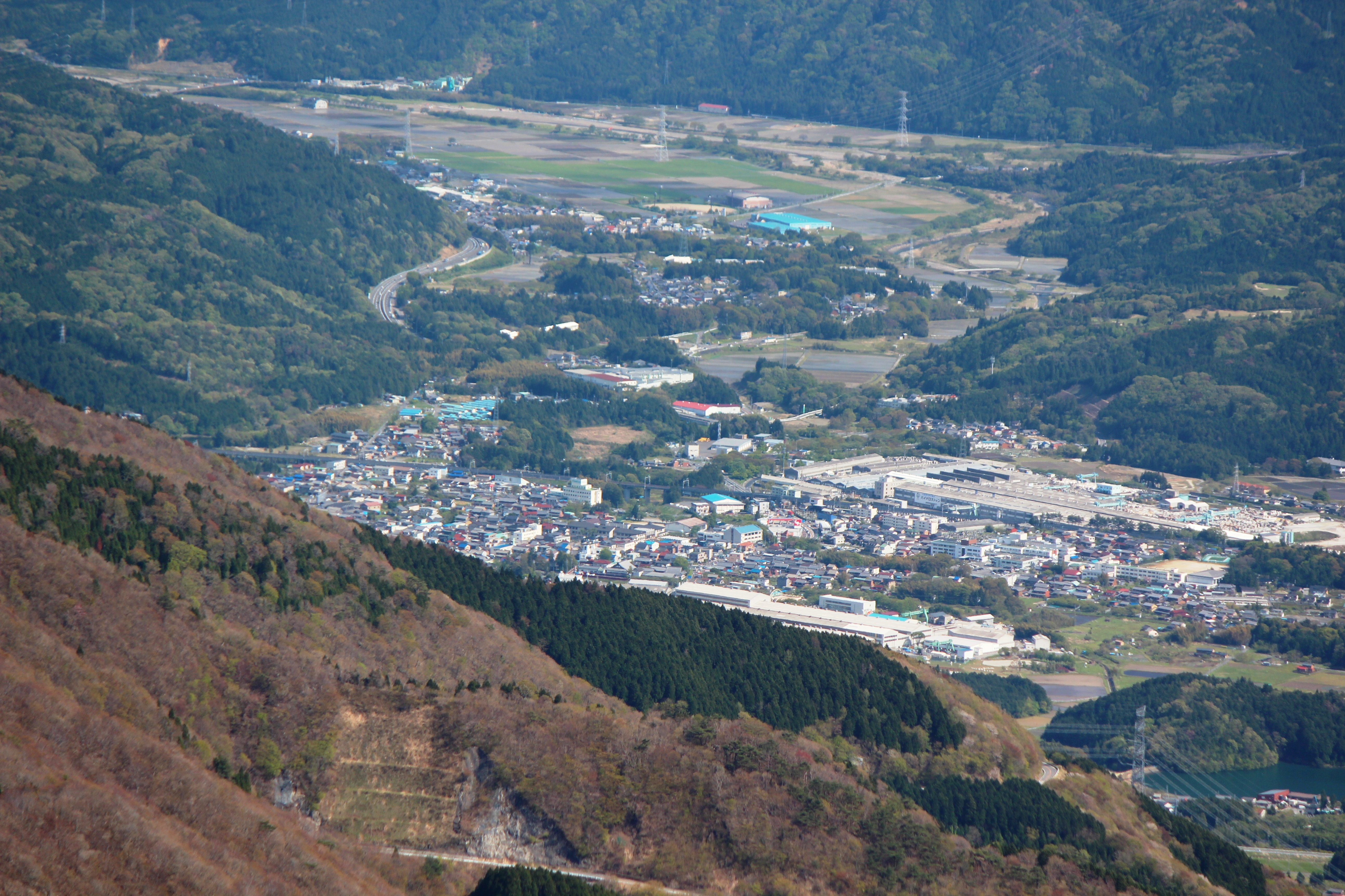 Sekigahara, Gifu seen from Mount Ibuki